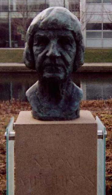 Naomi Mitchison, Scottish writer. herm at South Gyle.